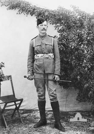 Australian War Memorial photograph A05816: "Studio portrait of 488 Shoeing-Smith Peter Joseph Handcock, taken in Sydney prior to his departure for South Africa with the 1st New South Wales Mounted Rifles. Lieutenant (Lt) Peter Handcock received his commission in the Bushveldt Carbineers, where he appeared on the rolls as Veterinary and Transport Officer. Lt Handcock was tried on five charges of murder and received two sentences of death, and, along with Lt Henry 'Harry' Harbord Morant, was shot by a firing party on the morning of 27 February 1902. Their bodies were placed into the same grave in a quiet civilian section of Pretoria's Church Street Cemetery."